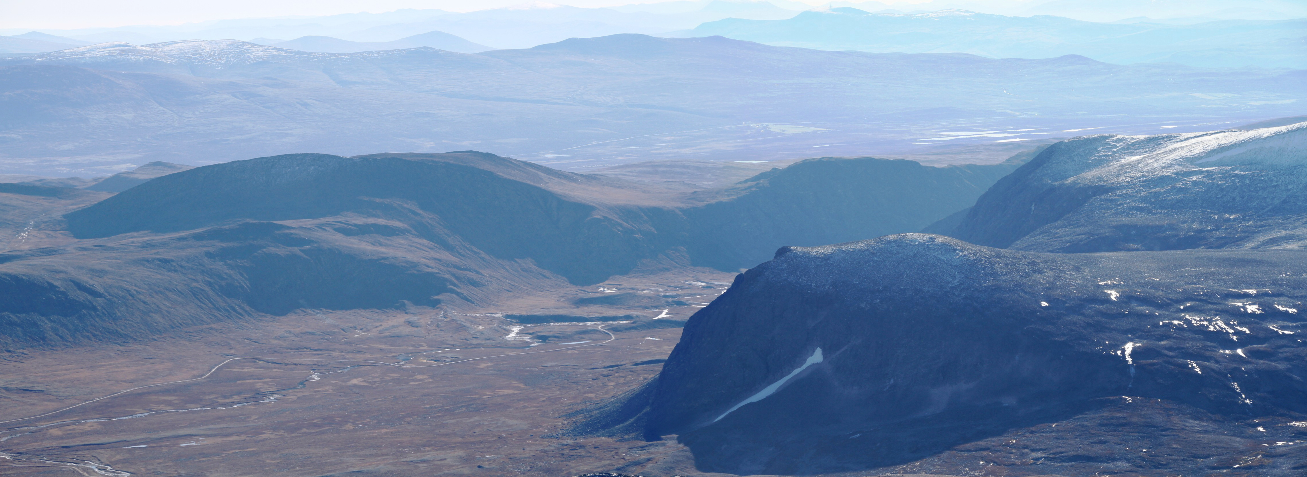 The Grøna river surrounded by the Einøvlingsegga mountain cliff (1676m) to the left (south), and the Flathøi mountain (1703m) to the right.